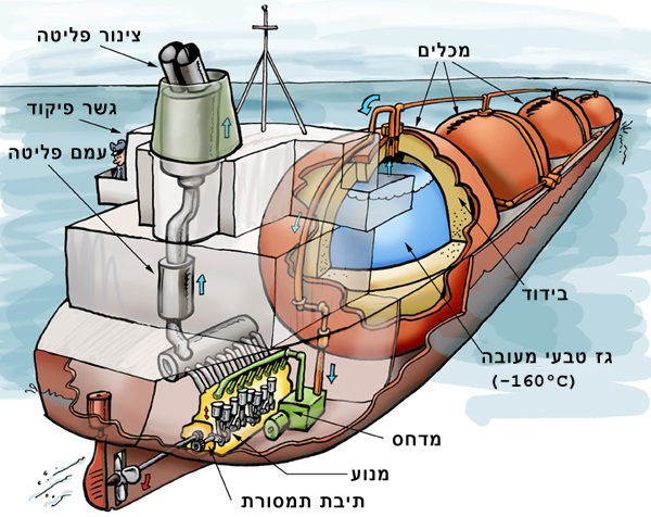 A cartoon of the insides of a LNG carrier